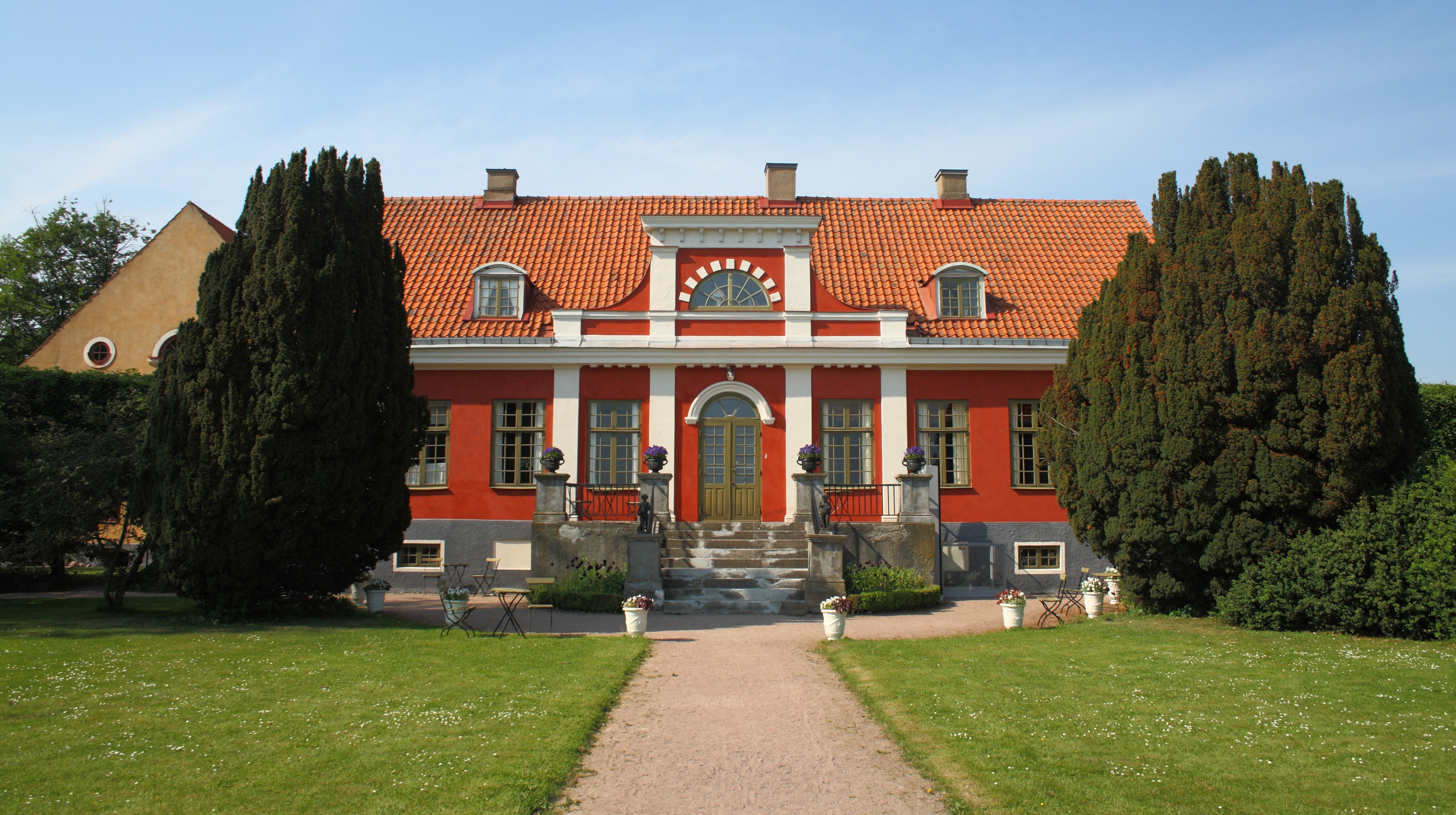 Katrinetorp Mansion in the Fosie district of Malmö, Sweden.